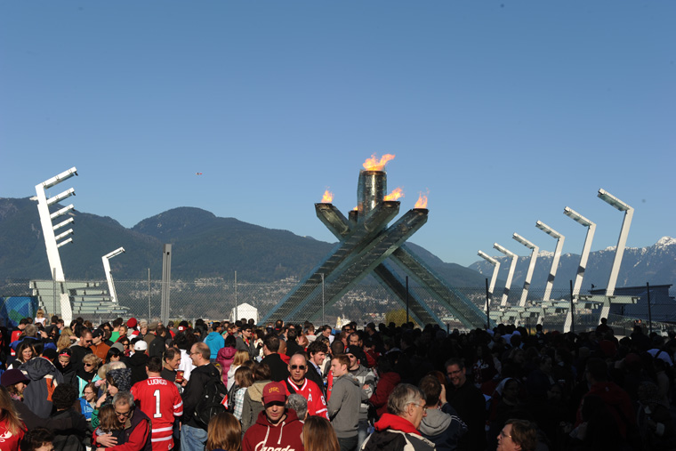 The Olympic cauldron, downtown Vancouver, BC